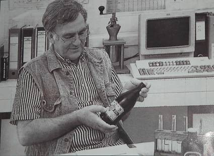 Gérard Avanzini from the Brasserie de Bourbon brewery